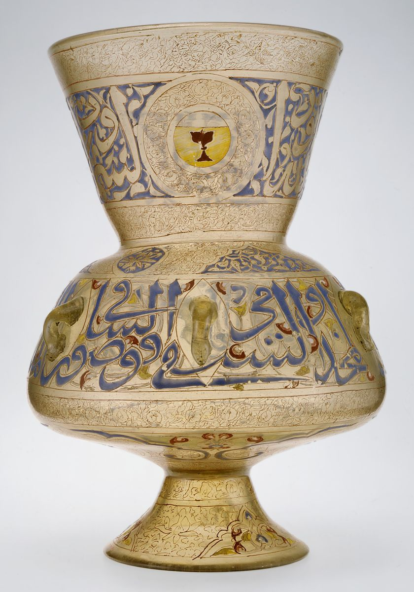 Working Title/Artist: Mosque Lamp Department: Islamic Art Culture/Period/Location: HB/TOA Date Code: Working Date: photographed by mma 2000, transparency #1a scanned by film and media (jn) 12_17_01